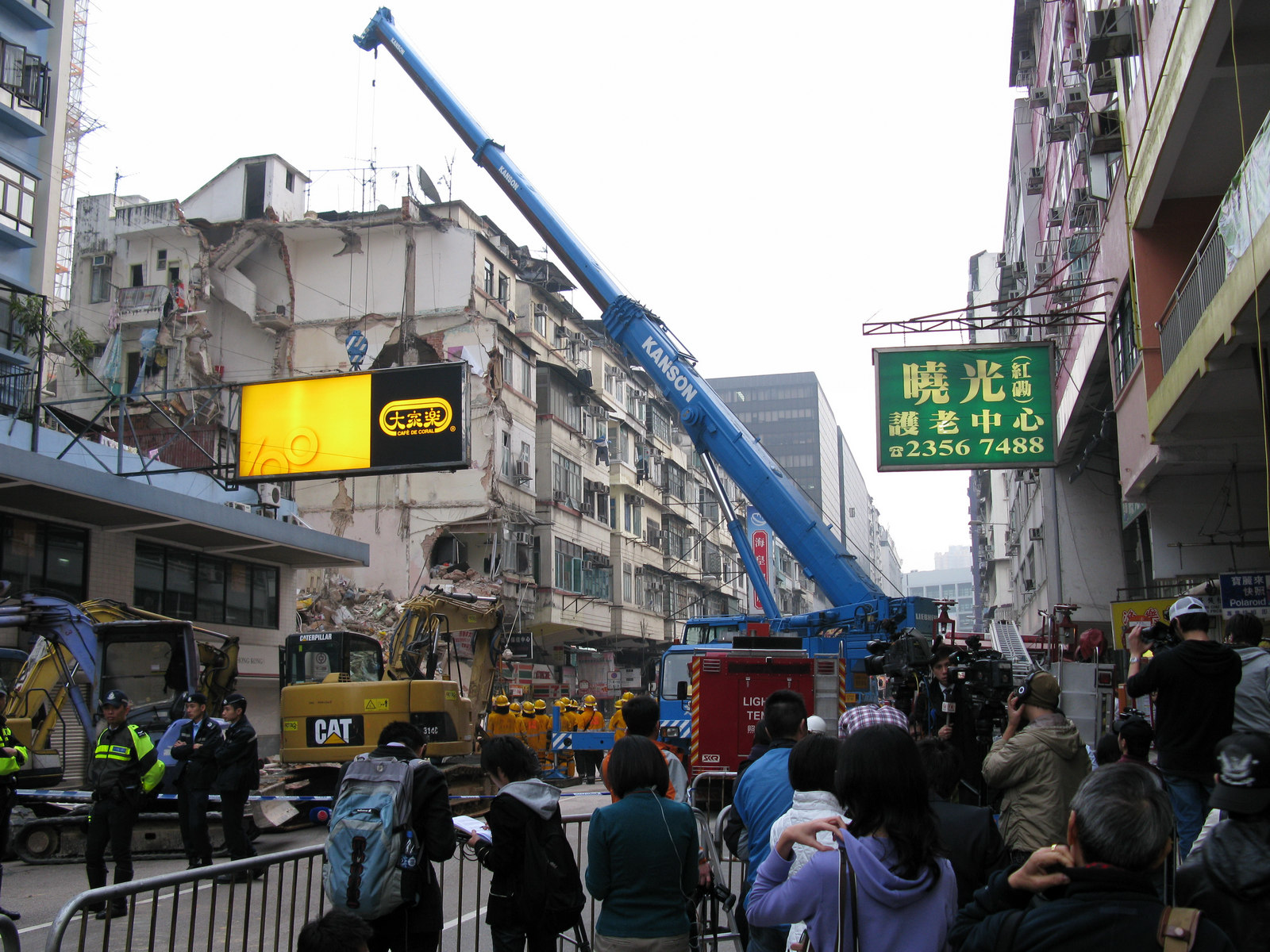 Tenement Building collapse in Ma Tau Wai Road, 2010-01-29